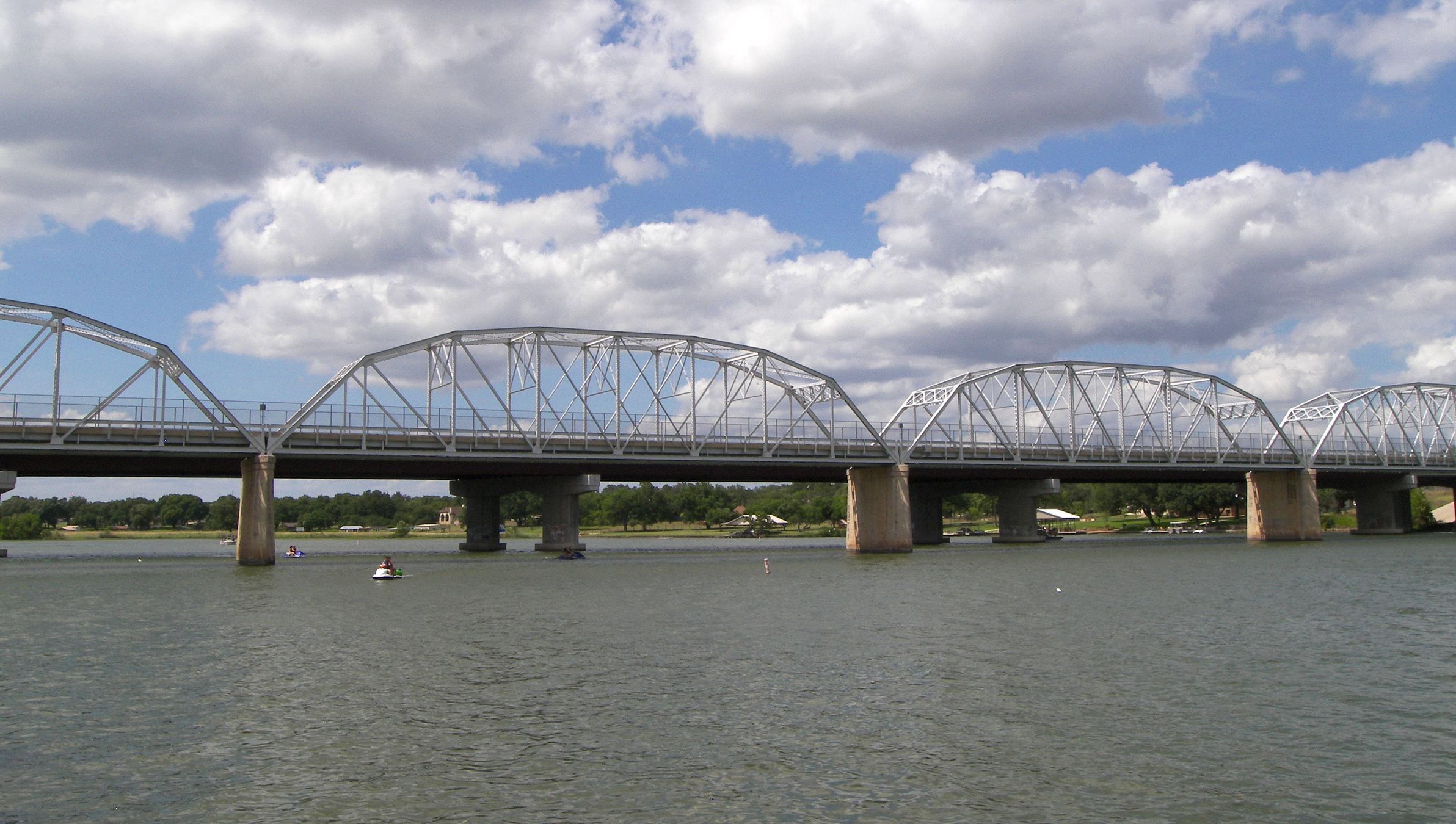 The State Highway 29 Bridge at the Colorado River located on the county line between Burnet County and Llano County, Texas, United States. It was listed on the National Register of Historic Places on October 10, 1996.